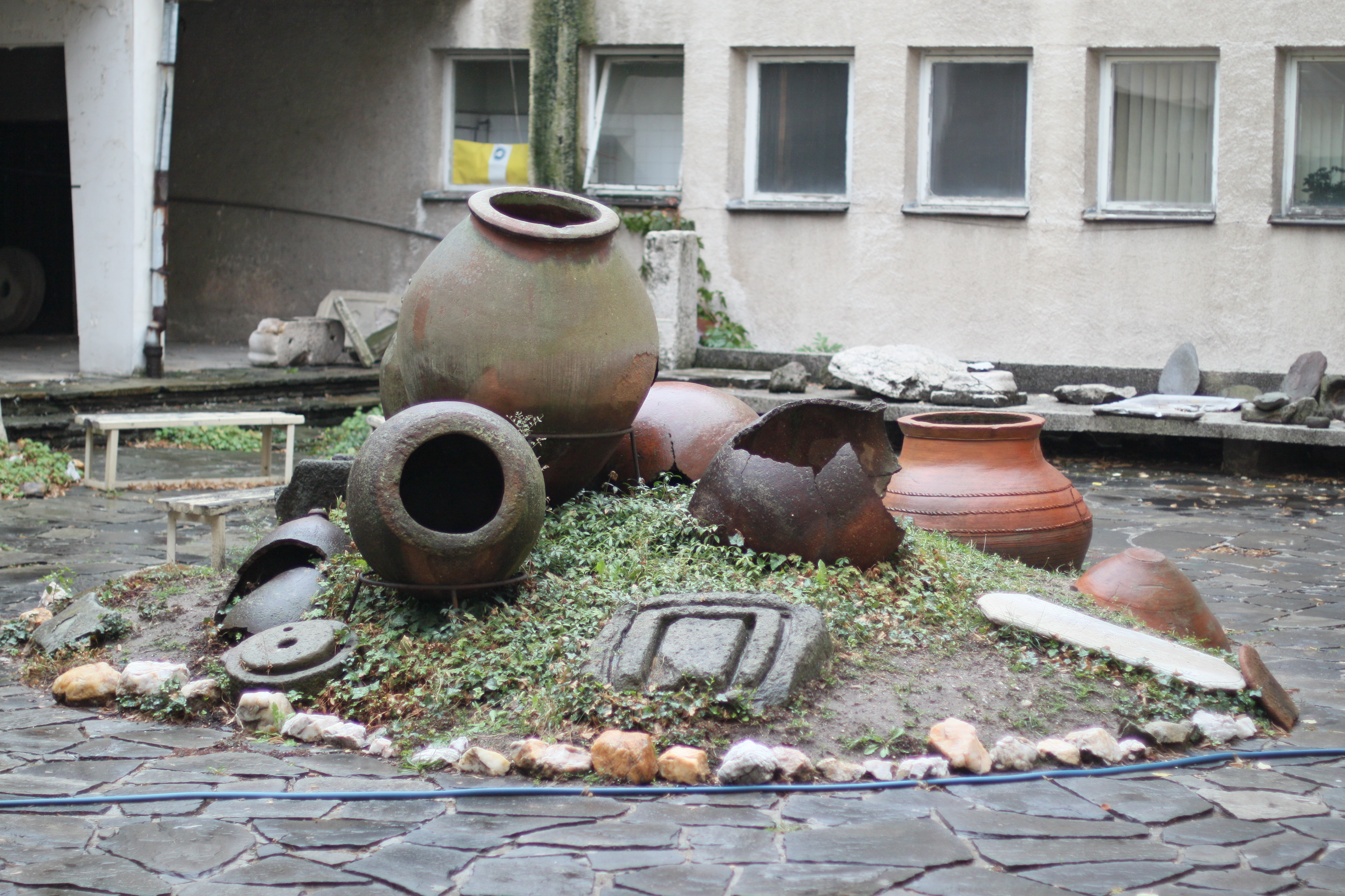 Haskovo Historic Museum, Haskovo, Bulgaria